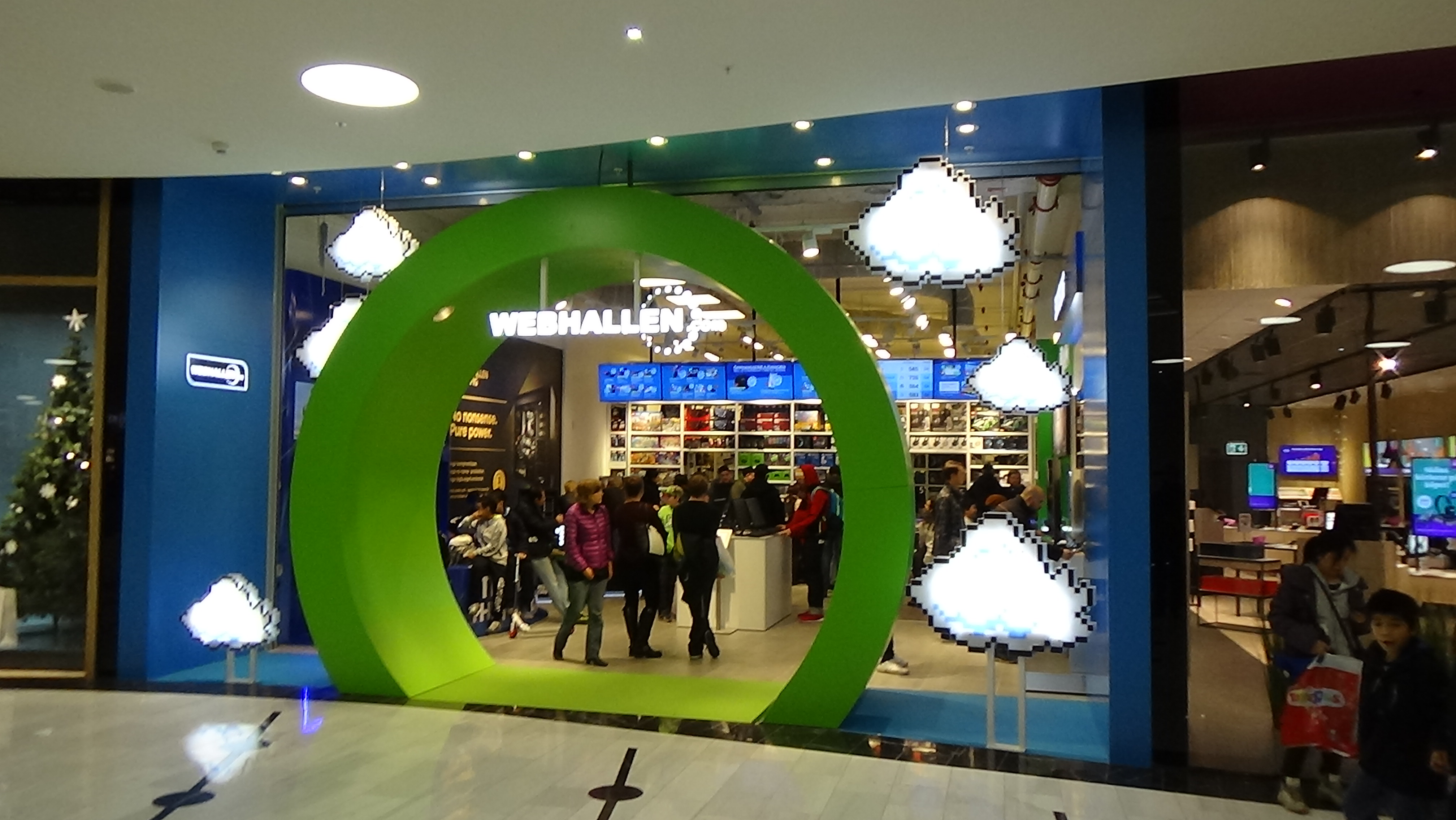 Webbhallen store at the Mall of Scandinavia, Solna, Sweden